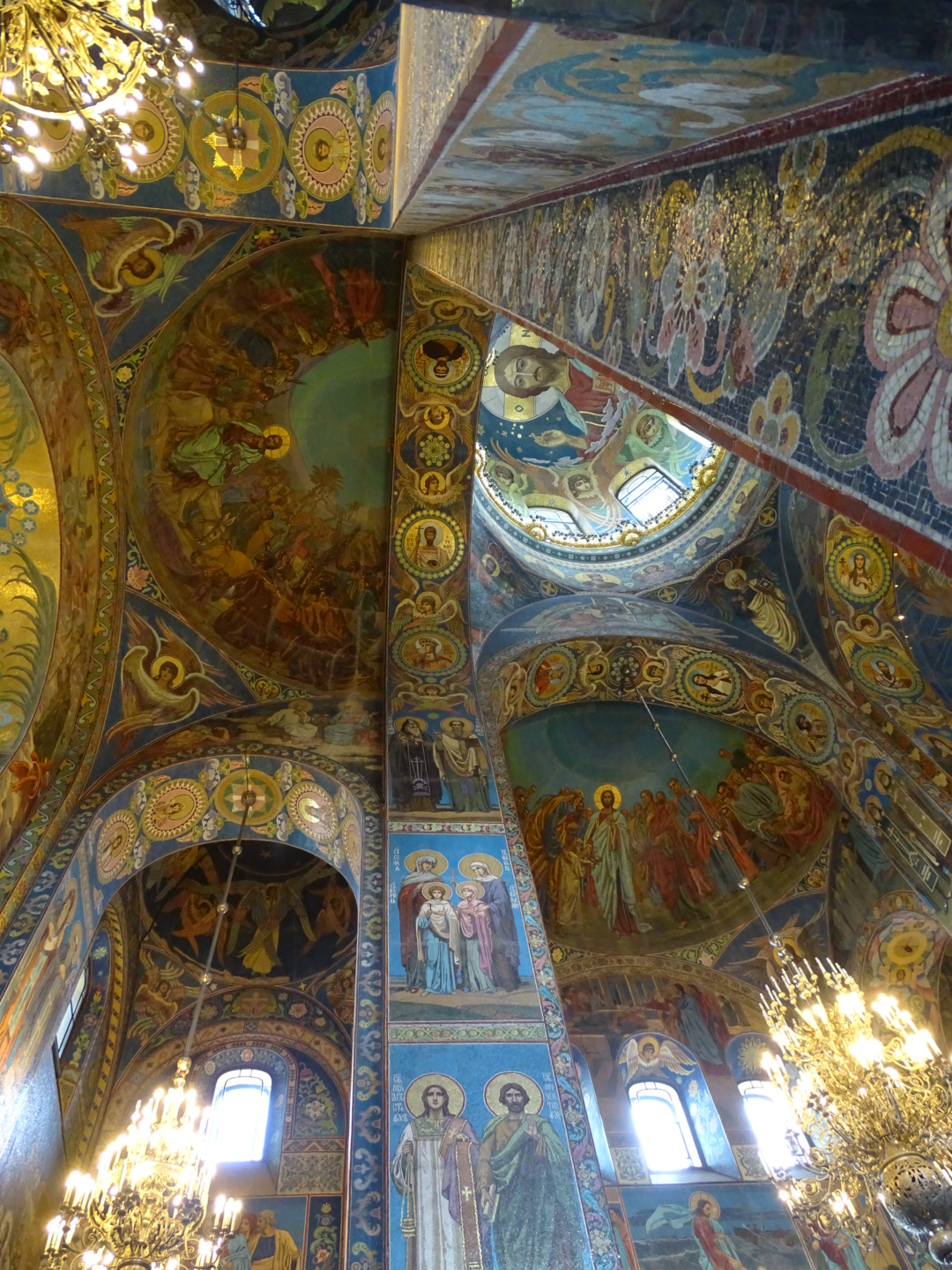 Plafond mozaïek Kerk van de Verlosser op het Bloed